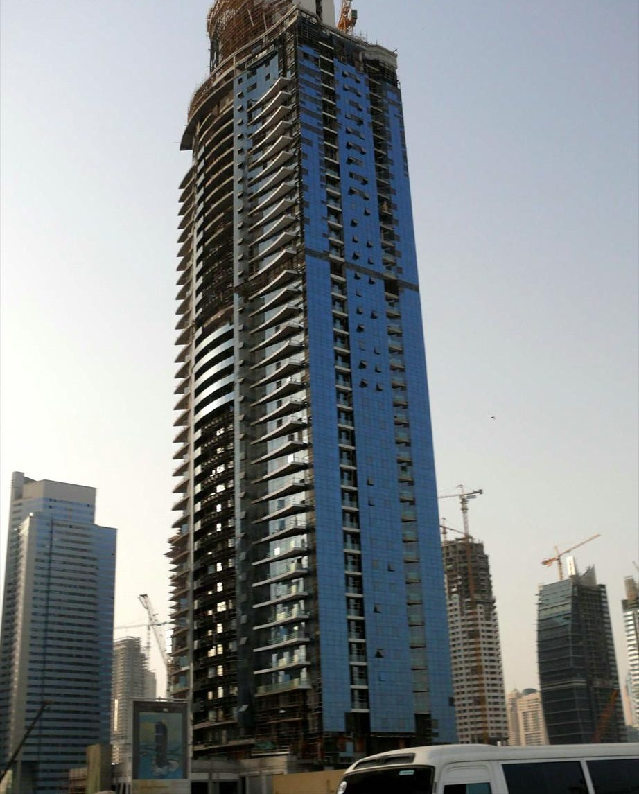 This is a photo showing the construction of Concorde Tower, located in Jumeirah Lake Towers in Dubai, United Arab Emirates, on 15 May 2008.